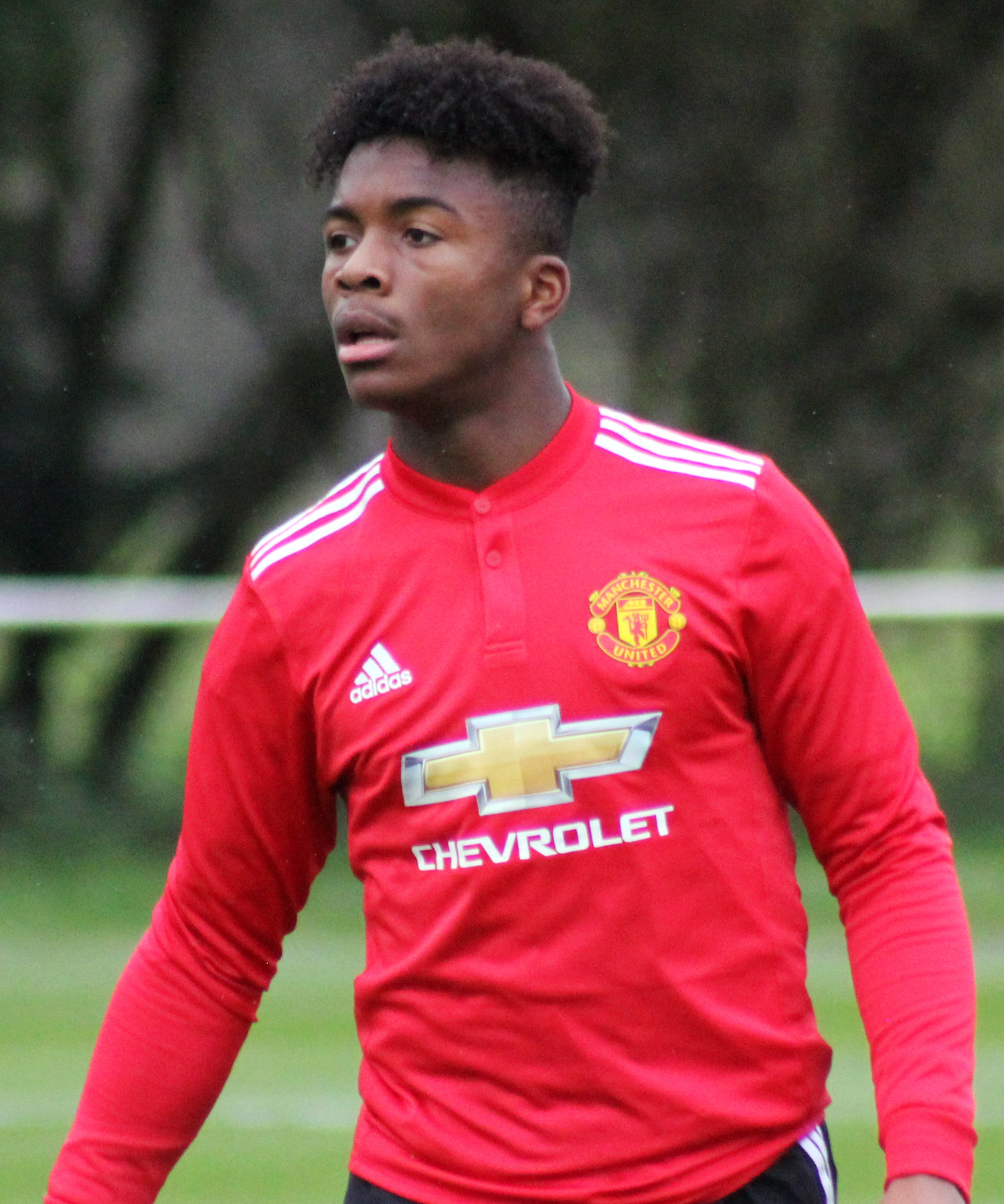 Blackburn Rovers U18s 1-4 Manchester United U18s U18 Premier League North Saturday 18 November Blackburn Rovers Training Centre